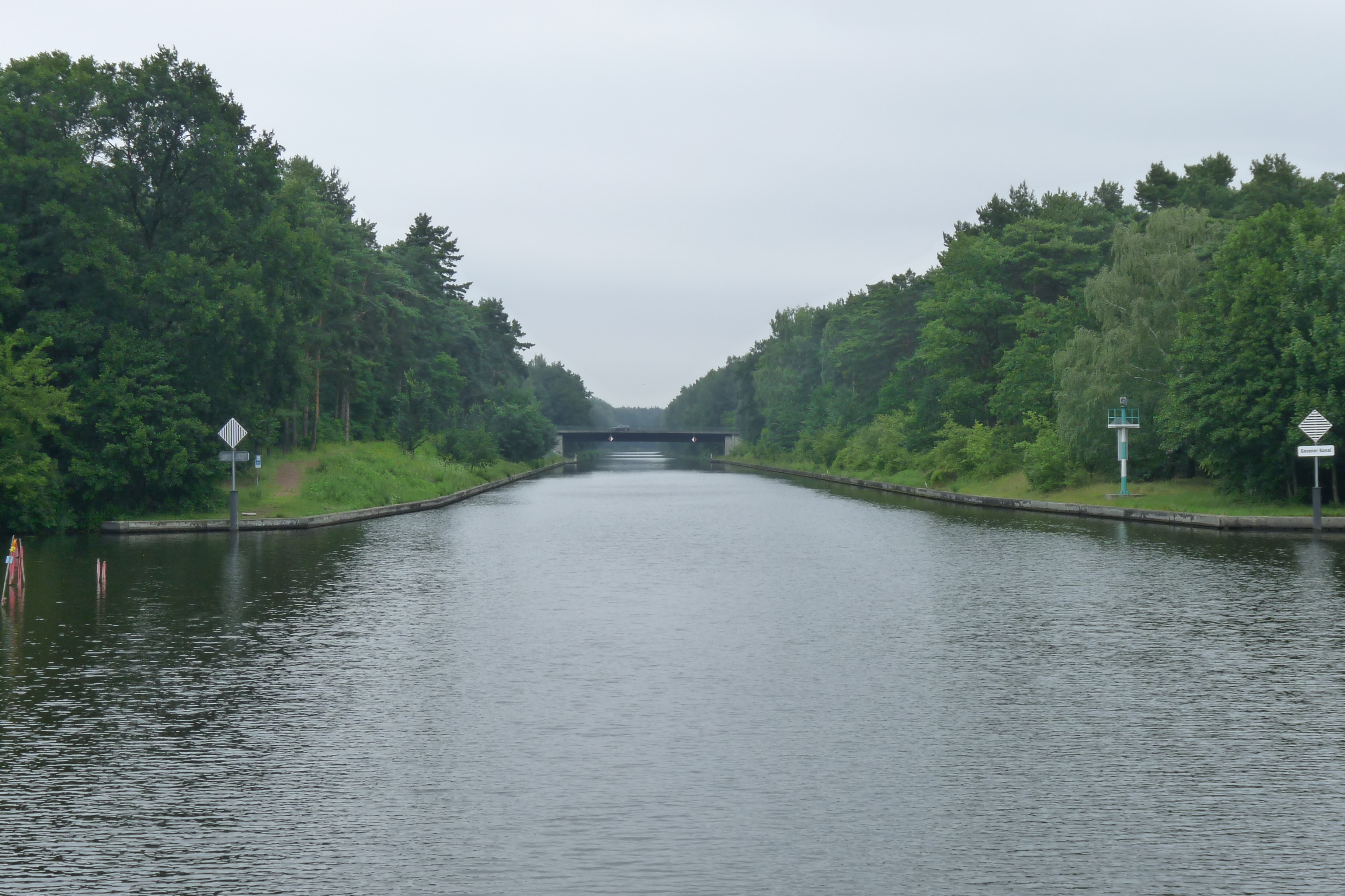 Way in into the Gosener Kanal from Seddinsee